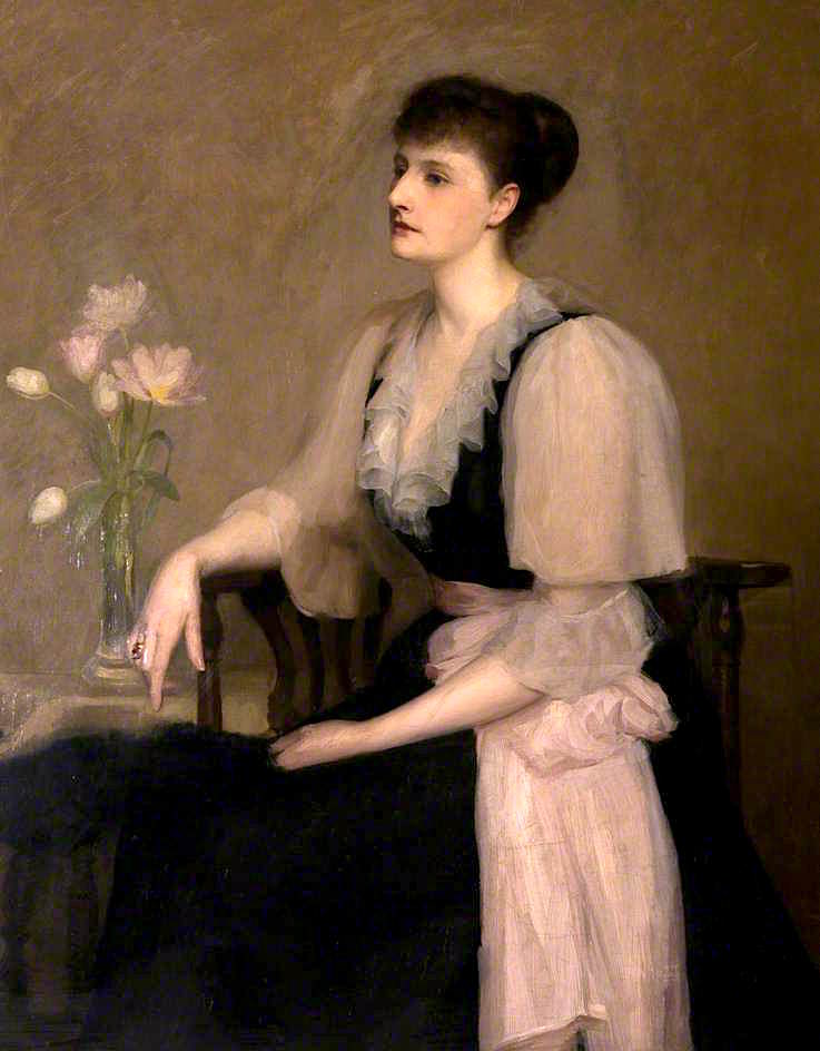 oil on canvasmedium QS:P186,Q296955;P186,Q12321255,P518,Q861259; Height: 127 cm (50 ″); Width: 101.6 cm (40 ″) dimensions QS:P2048,127U174728;P2049,101.6U174728; Angus Council